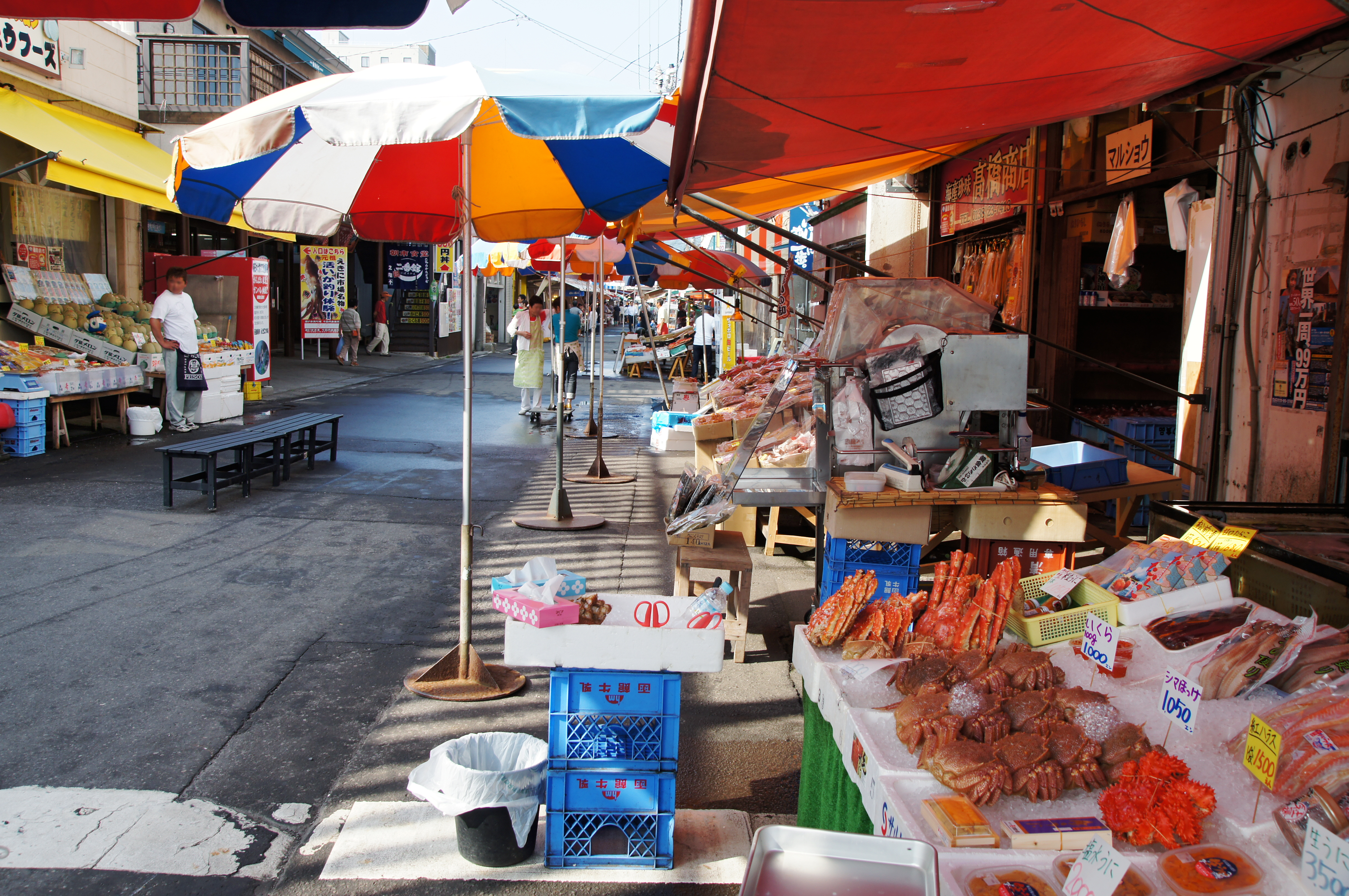 at Hakodate Asaichi in Hakodate, Hokkaido prefecture, Japan